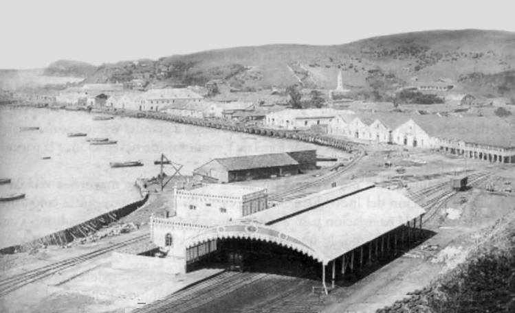 Train station in Talcahuano port, Chile. Late nineteenth century